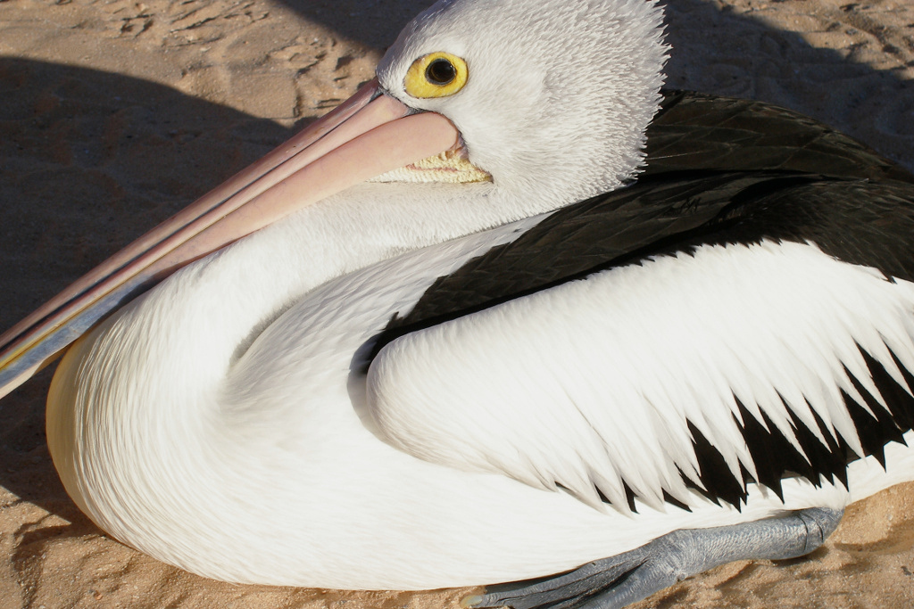 Shark Bay Marine Park, Western Australia, pelican resting on the beach at Monkey Mia